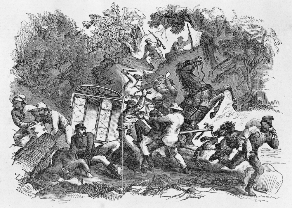 Artist's depiction of bushrangers robbing a gold escort from Lachlan, New South Wales, Australia. Published by Edgar Ray in The Illustrated Australian Mail, Melbourne, 1862.